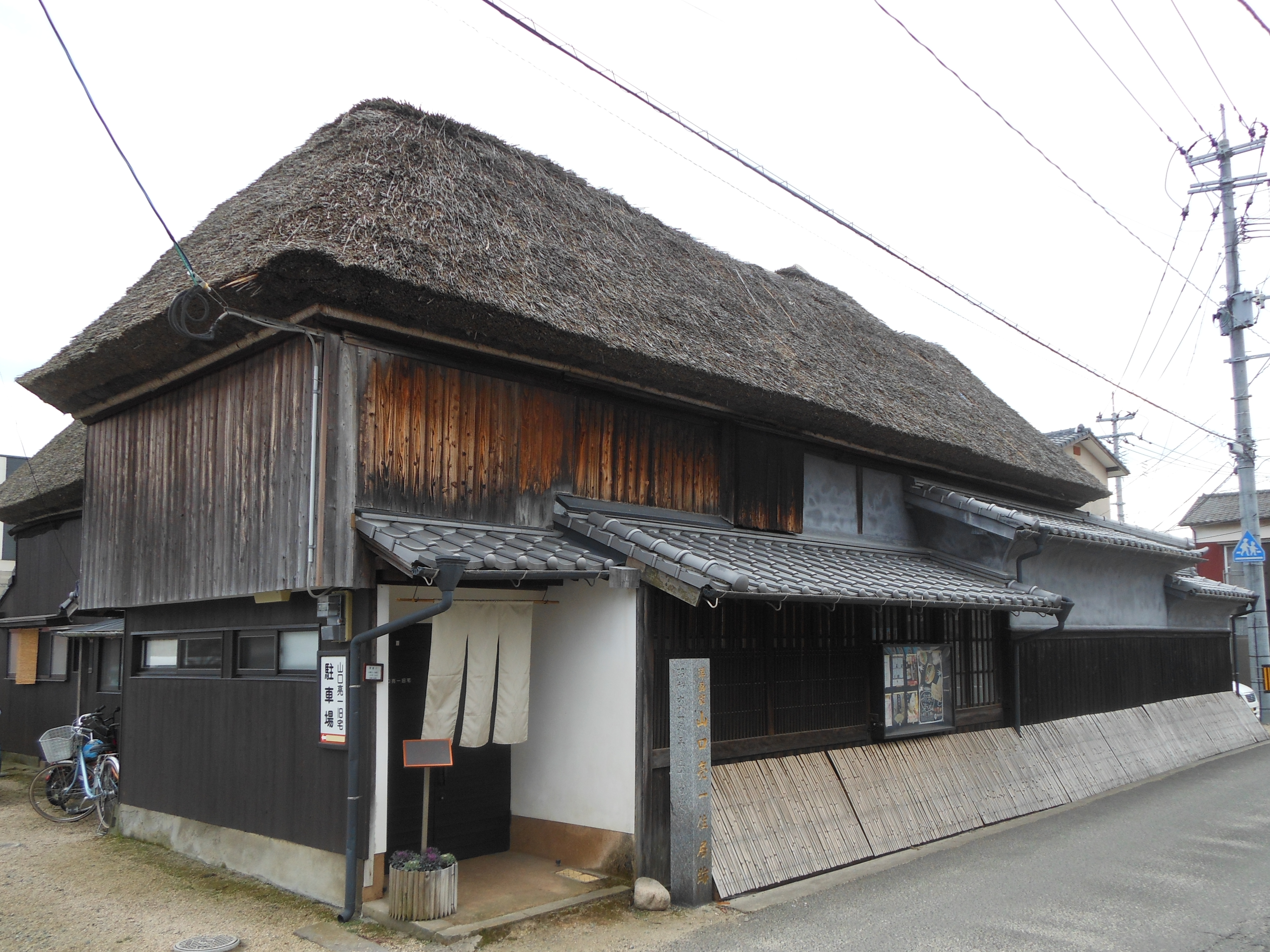 Front view of old house of Yamaguchi Ryoichi, in Yokamachi, Saga city, Saga, Japan. It built in late Edo period and relocated in Tenpō(1830-1844).